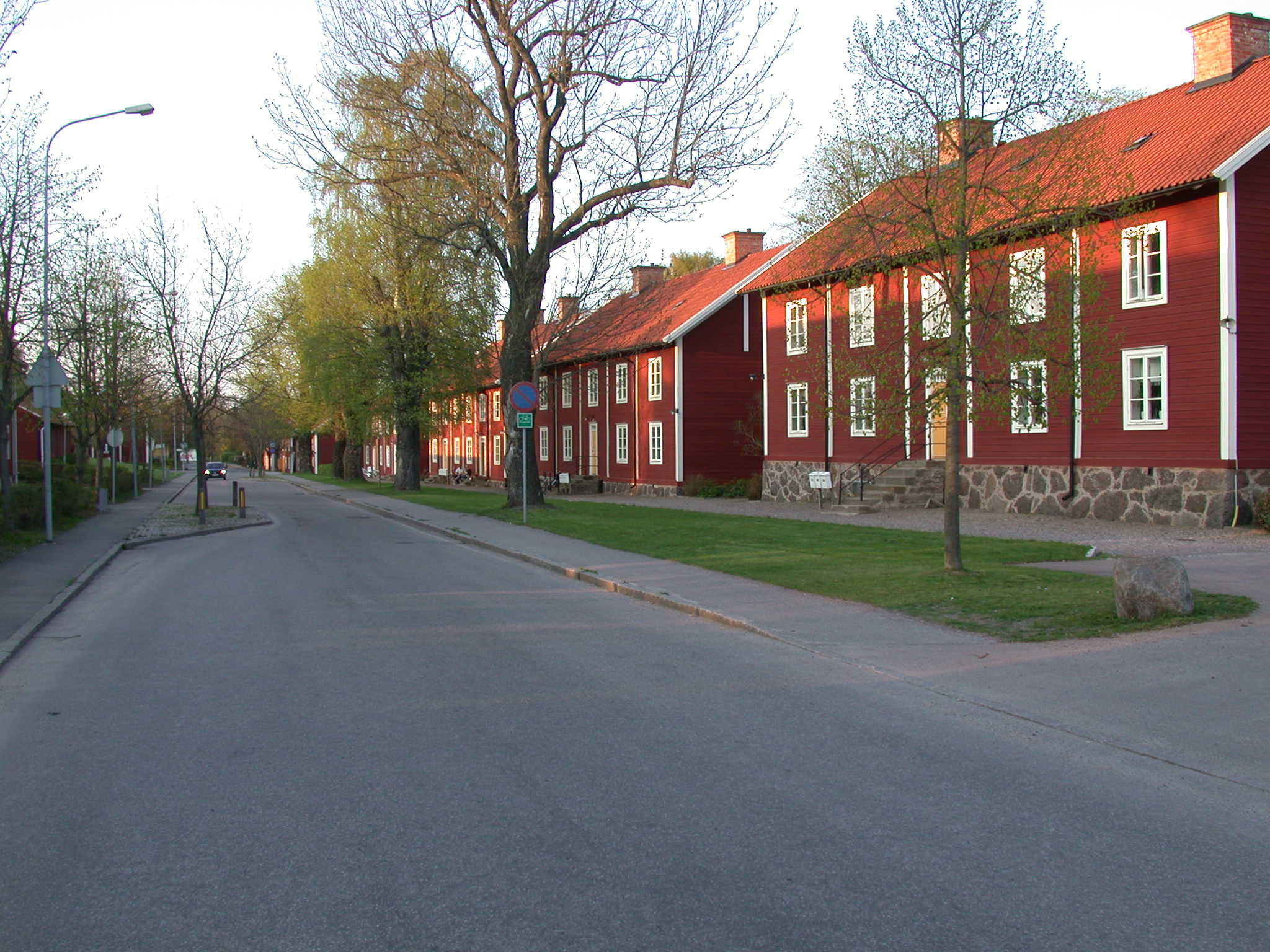 Old houses for workers employed by Motala Verkstad, Motala, Sweden. Photo by Riggwelter, May 10, 2006.